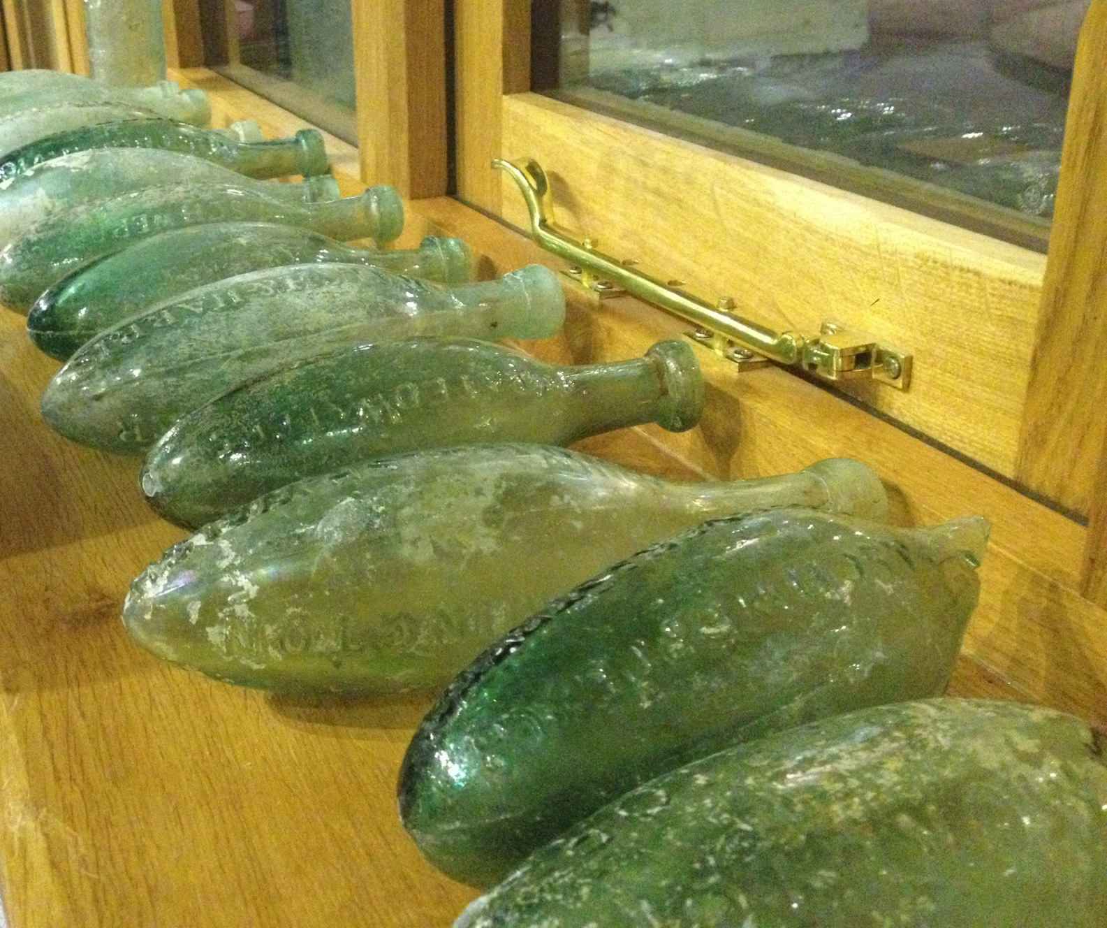 Bottles found at the Elephant and Castle Dawley during its renovation in 2011